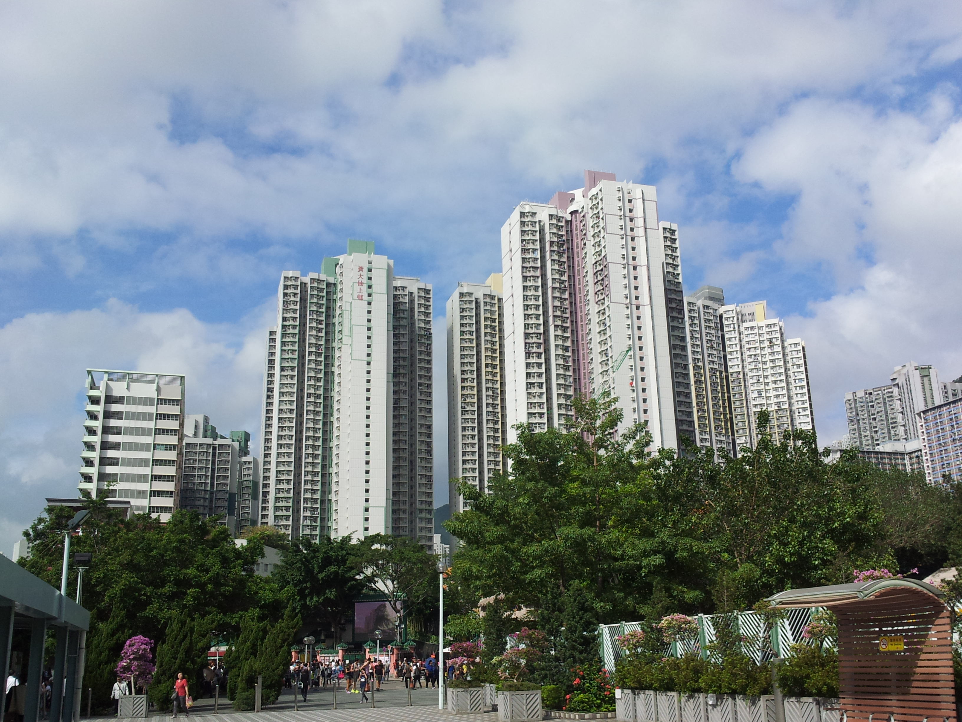 Upper Wong Tai Sin Estate (Nov 2015)